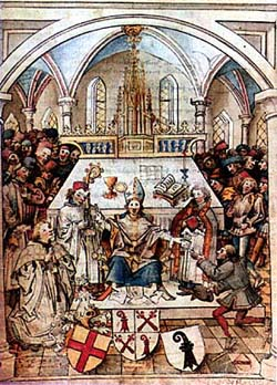 Medieval miniature of the inauguration ceremony of the University of Basel] in the cathedral of Basel on April 4, 1460.